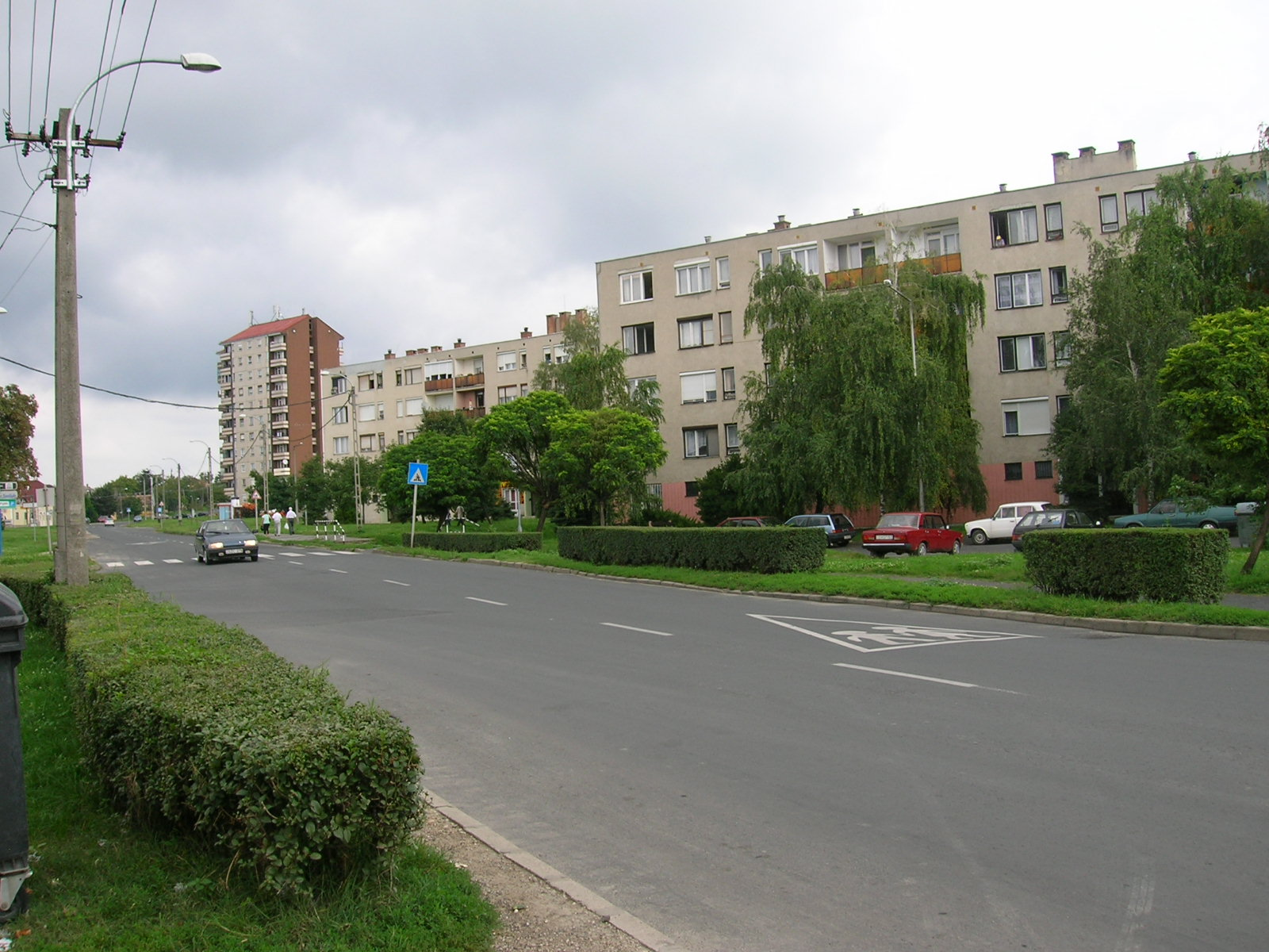 A street in the modern part of Keszthely, Hungary.